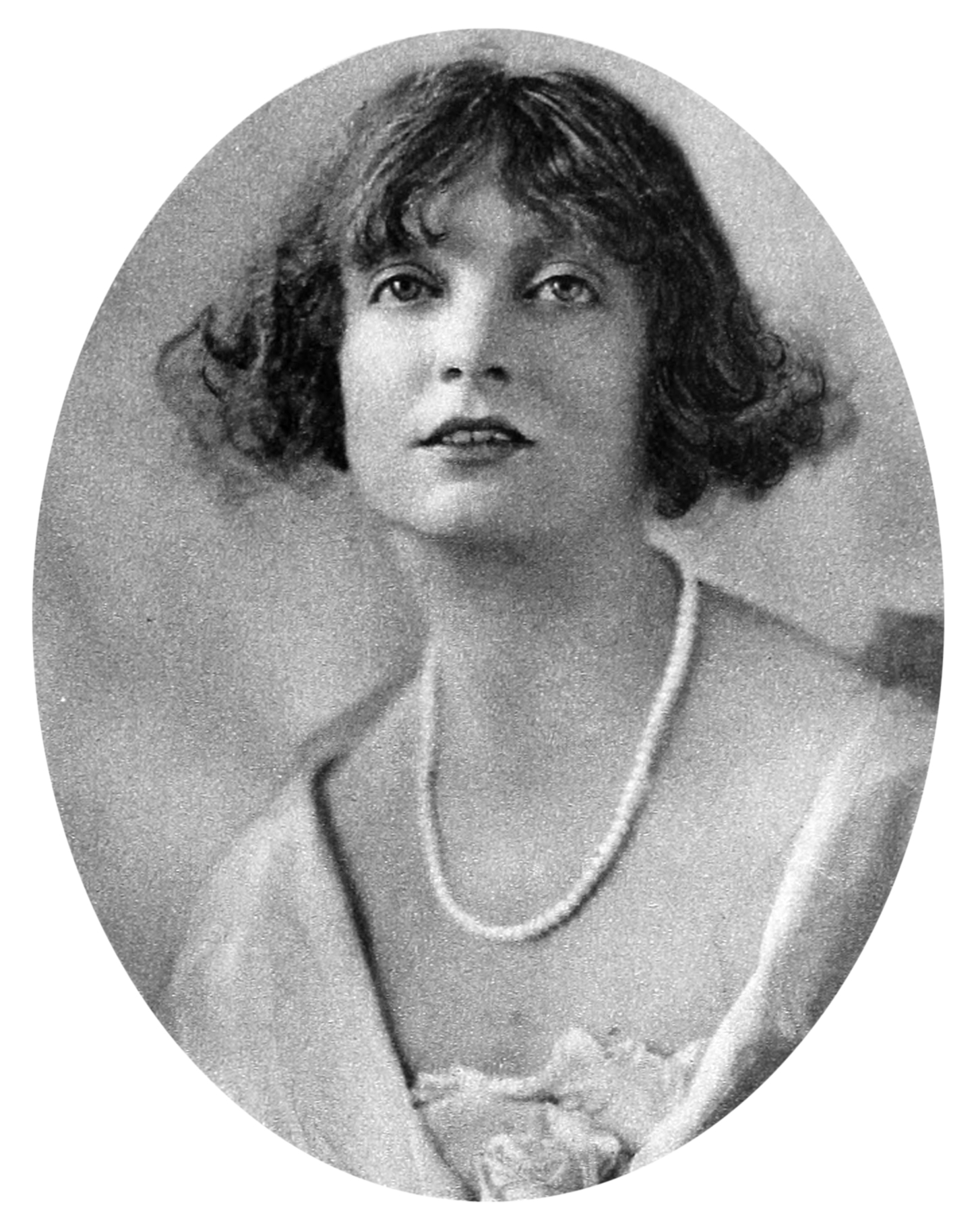 Photograph of actress Estelle Winwood, star of the Broadway production of Somerset Maugham's Too Many Husbands (1919–20)